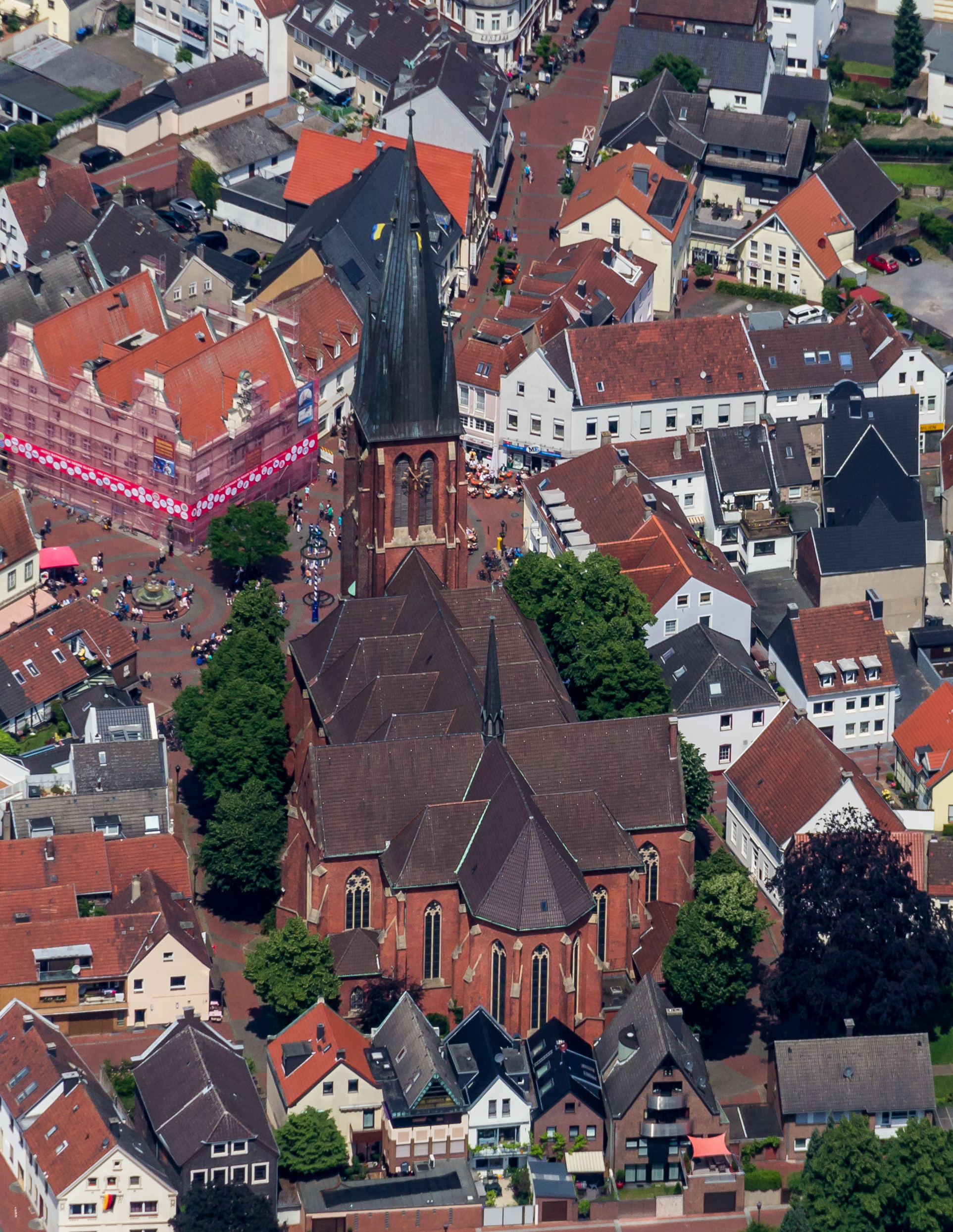 Haltern am See, North Rhine-Westphalia, Germany This image shows a heritage building in Germany, located in the North Rhine-Westphalian city Haltern am See (no. 10).